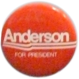 Jimmy Carter Library and Museum